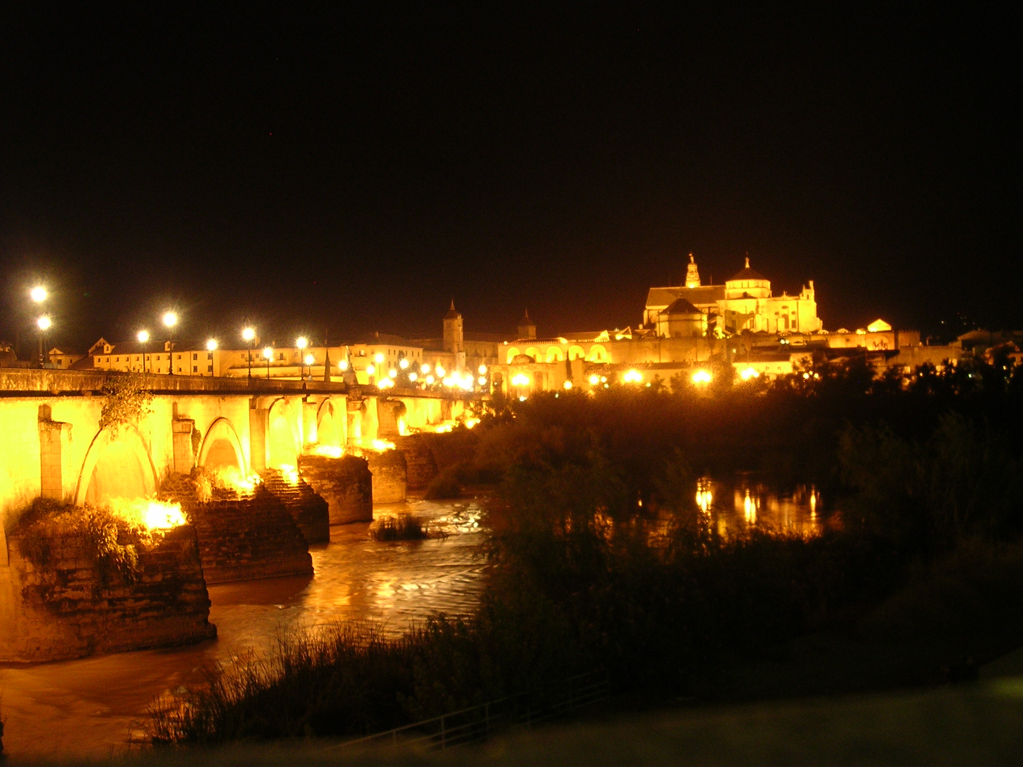 Córdoba, Spain